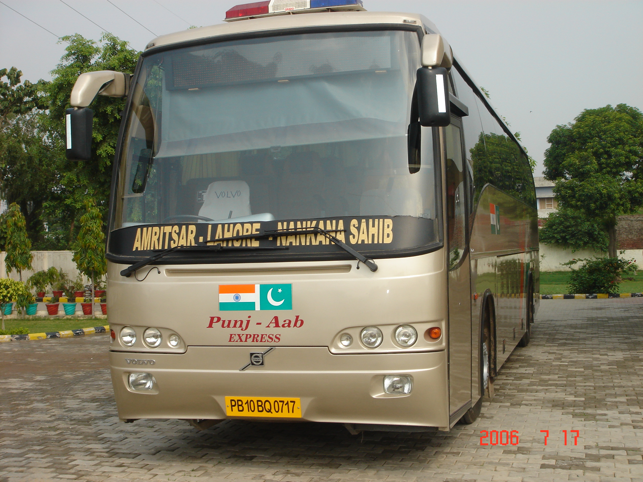 Amritsar Lahore Punjab Roadways Bus